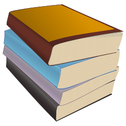 A stack of generic mass-market paperback books.